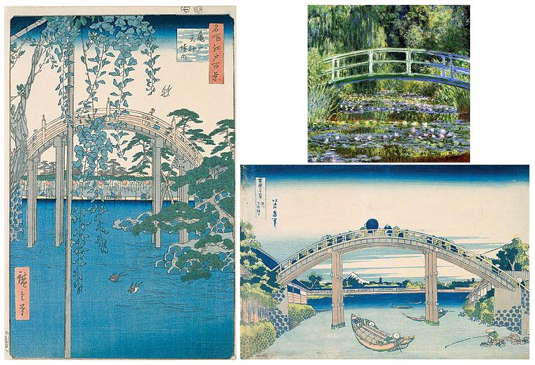 Left: Hiroshige, Interior of the Kameido-Tenjin Shrine (Tokyo) Right, Down: Hokusai, Under the Mannen Bridge in Fukagawa, Top: Claude Monet, Pond of water lilies, harmony in green. The original description page was [//fr.wikipedia.org/w/index.php?title=File:À gauche : Hiroshige, À l'intérieur du sanctuaire Kameido-Tenjin (à Tokyo) ; à droite, en bas : Hokusai, Sous le pont Mannen à Fukagawa ; à droite, en haut : Claude Monet, Le Bassin aux nymphéas, harmonie verte here]. All following user names refer to fr.wikipedia.